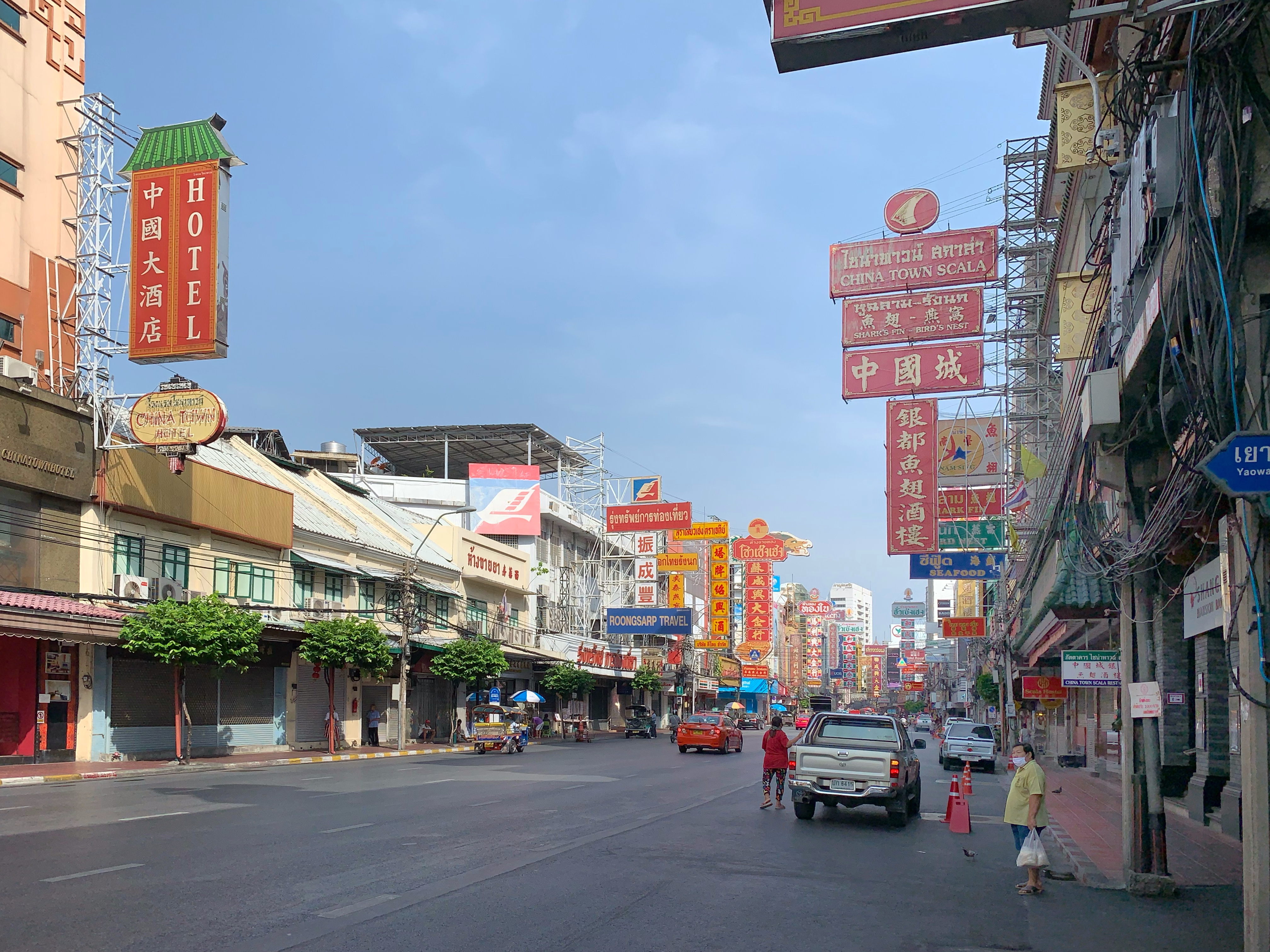 Bangkok’s Chinatown, Yaowarat, sits empty lack of foreigner. The street is extremely popular amongst foreign tourists, which disappeared from the streets of Bangkok due to COVID-19 pandemic.